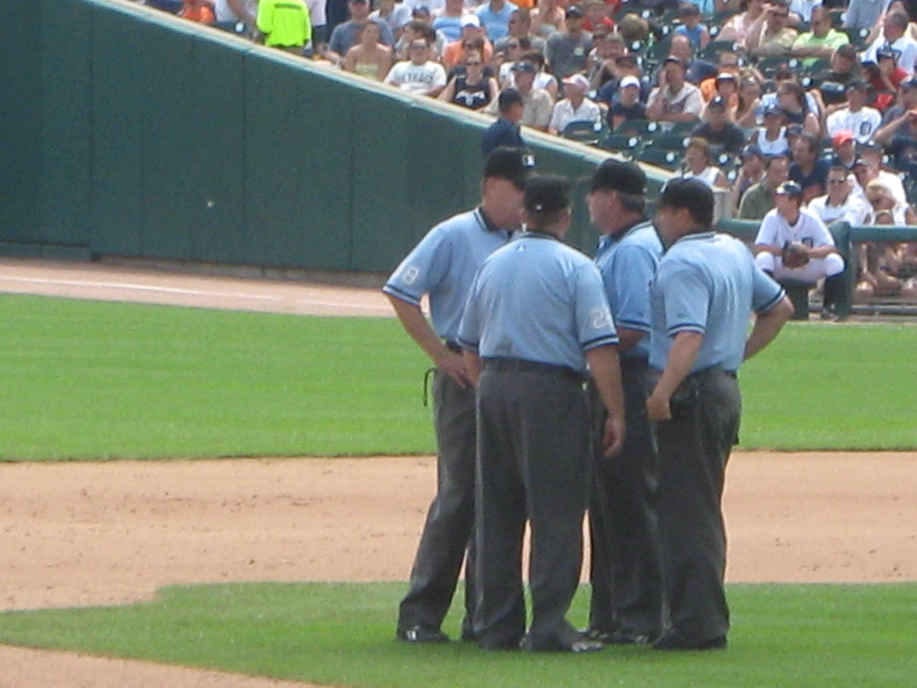 Description Umpire Meeting Date7-10-08SourceI created this work entirely by myself.AuthorRHMI (talk) 04:24, 11 July 2008 . . RHMI . . 3,072×2,304 (941 KB) Umpire Meeting